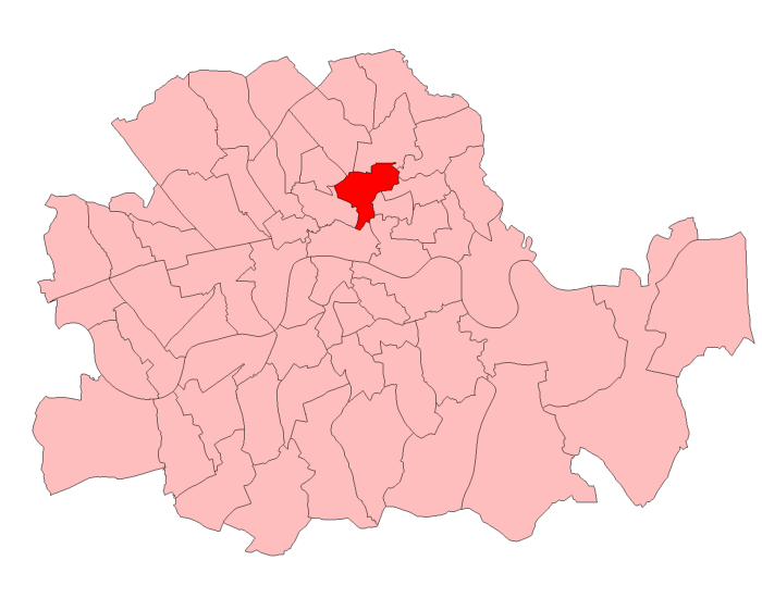 A map of Shoreditch constituency within the London County Council area, as it existed from 1918 to 1949.